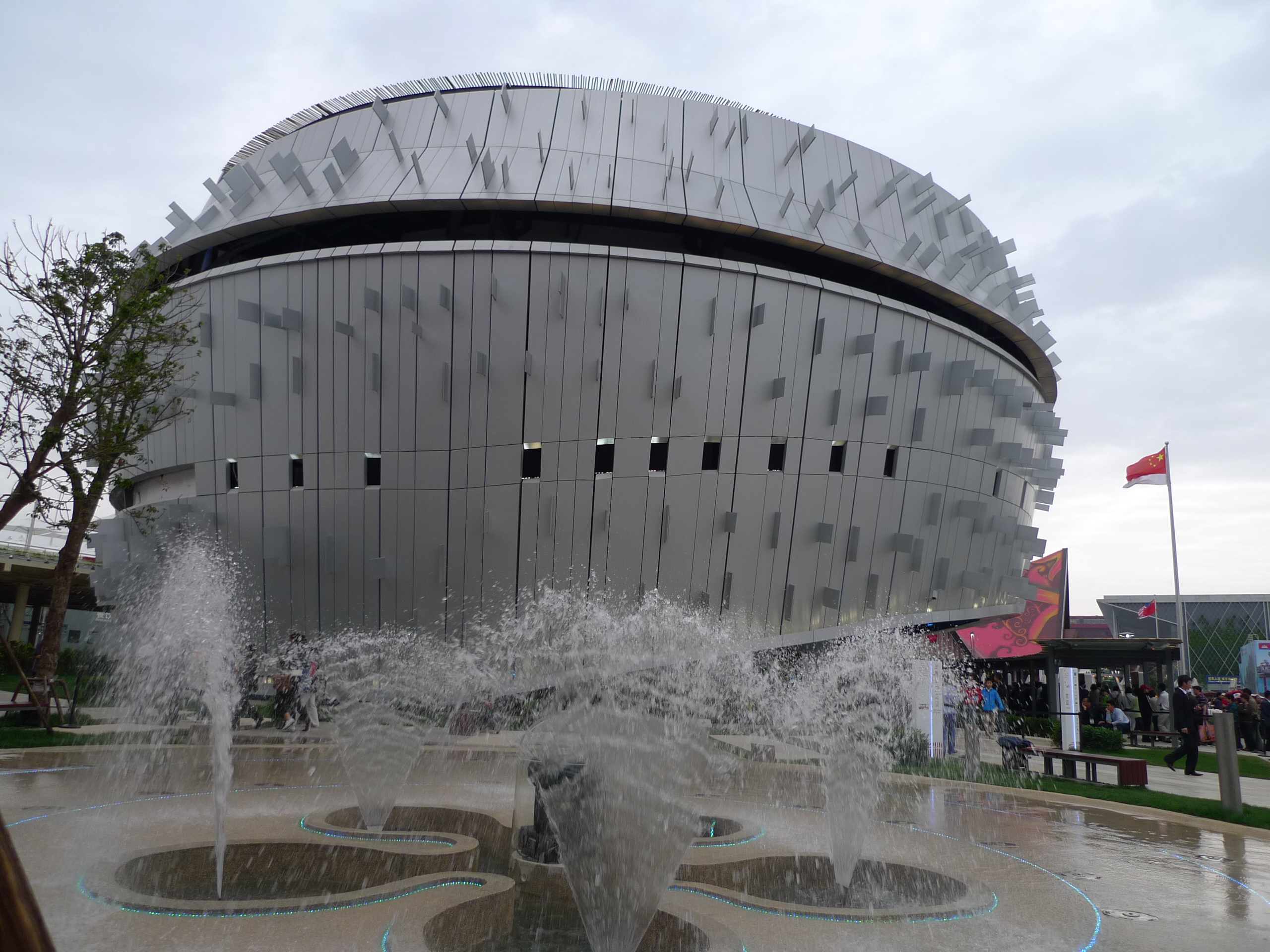 Singapore Pavilion of Expo 2010